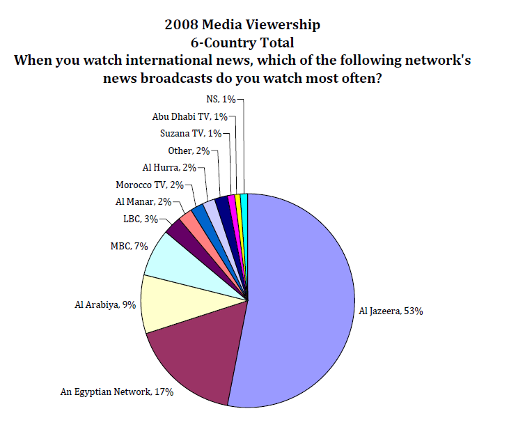 A pie chart of the responses about which international news broadcast is watch most in Egypt, Jordan, Lebanon, Morocco, KSA, and UAE